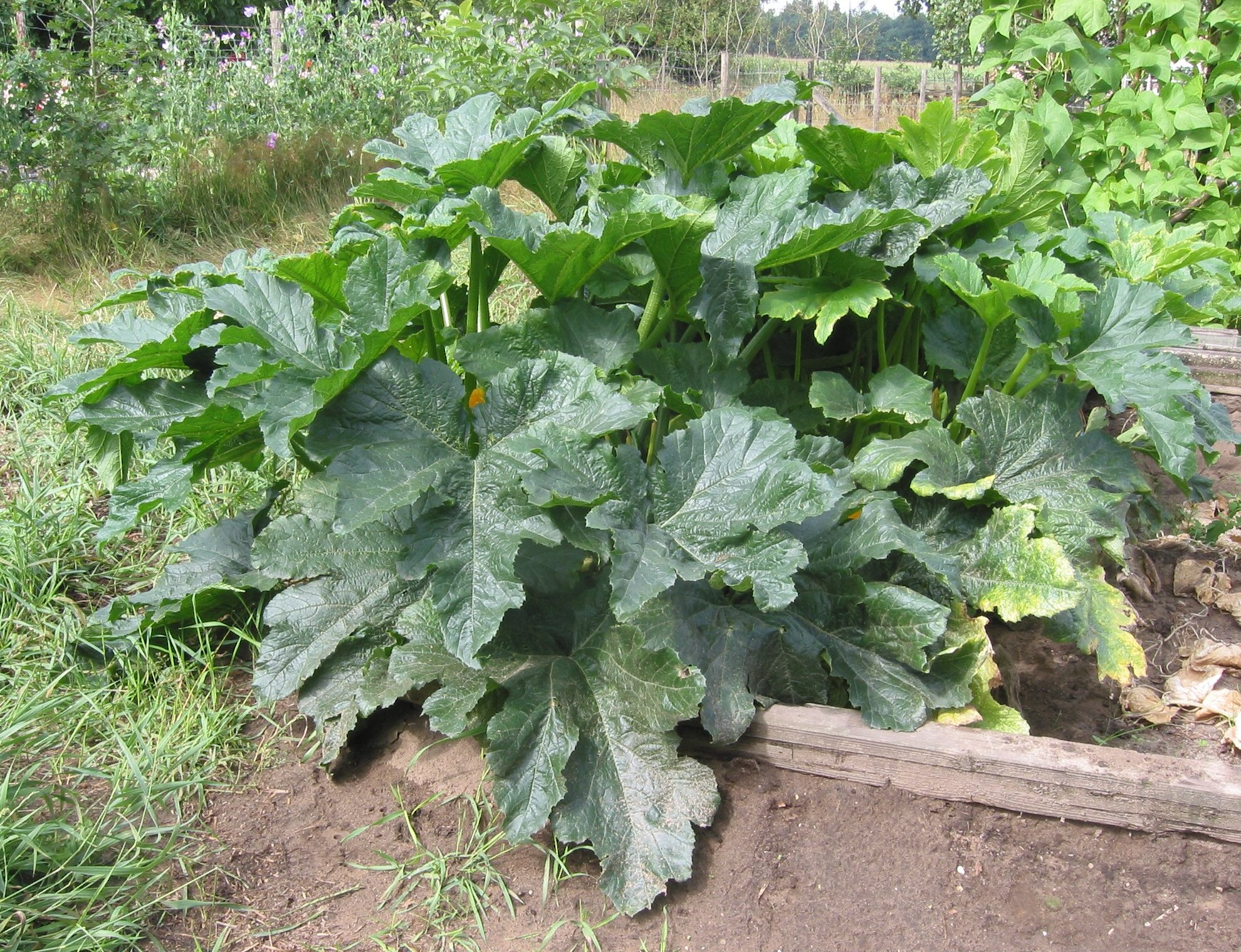 Cucurbita pepo in August